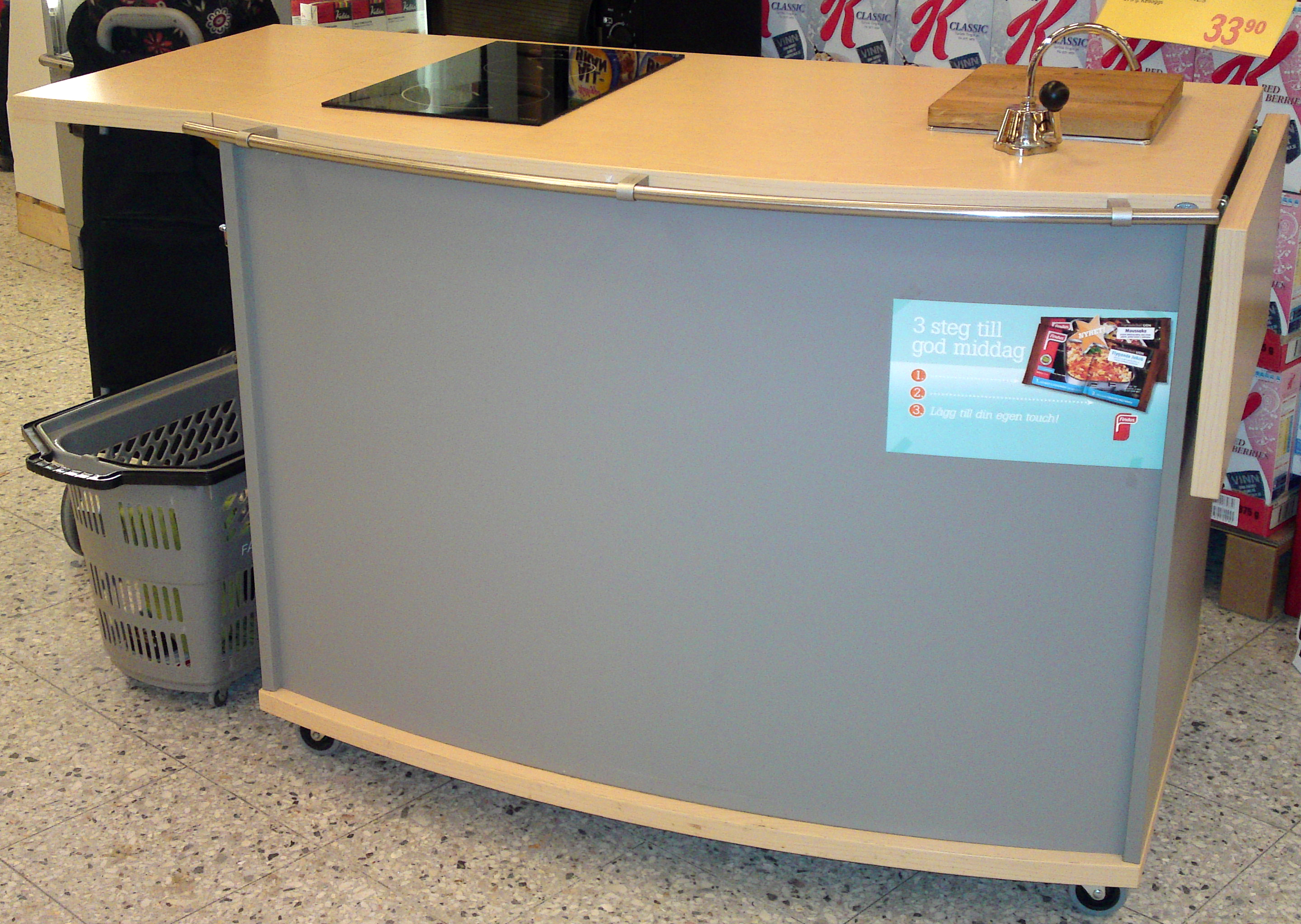 demo table